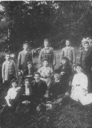 Ivan and Hristo Karamandjukovi, national revolutioners from Macedonia